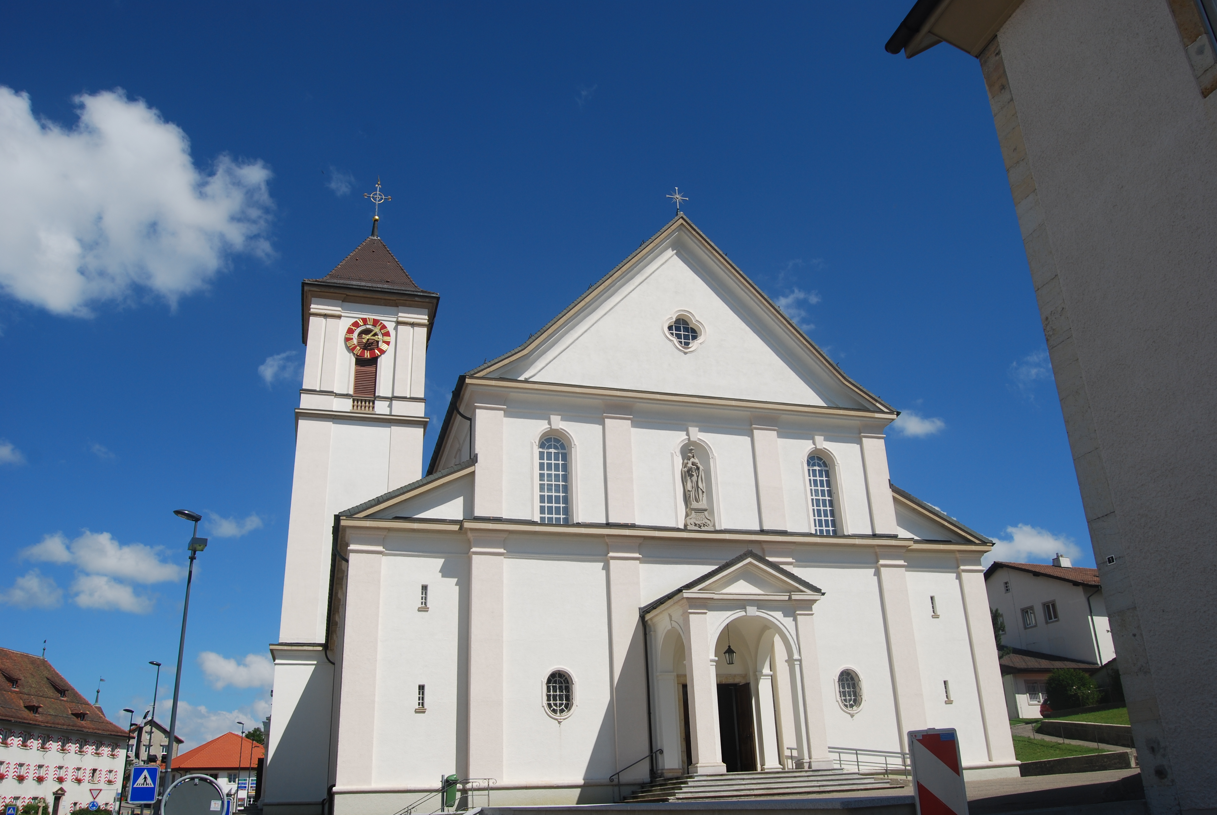 Catholic church of Saignelégier, canton of Jura, SwitzerlandEsperanto: Katolika preĝejo de Saignelégier, Kantono Ĵuraso, Svislando